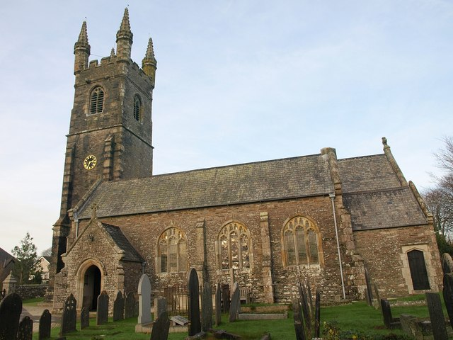 St Mary's church, Bickleigh. The C15 west tower of 884456 is described at thus: " in 3 stages with set back buttresses to first 2 stages, moulded bare embattled parapet with gargoyles on north and south sides. Large slightly corballed corner turrets, crenellated and with crocketed finials. Two-light Perpendicular ball openings". The remainder of the church was "largely rebuilt in 1838".